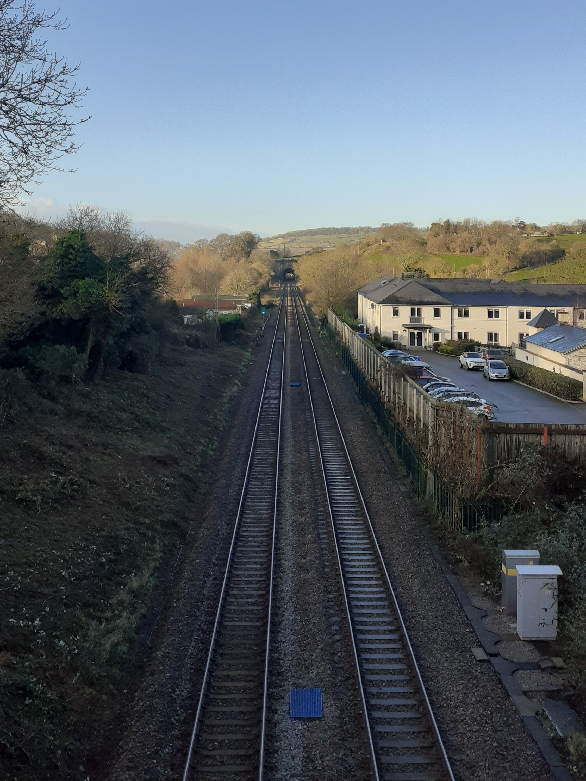 Railway tracks in Box, Wiltshire, United Kingdom on 29 January 2020. Seen from the A4 London Road looking west.